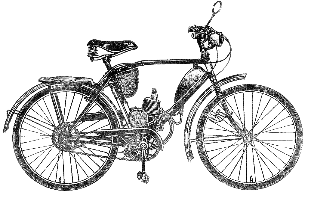 USSR motorized bicycle W-901 (1958) with D-4 engine